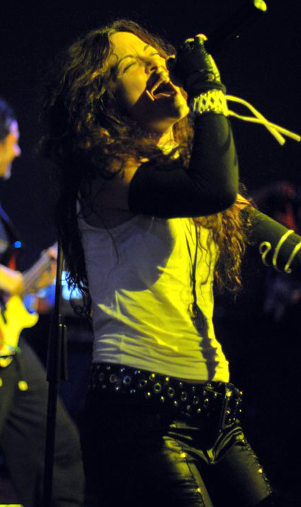 Giorgua Gueglio (singer)